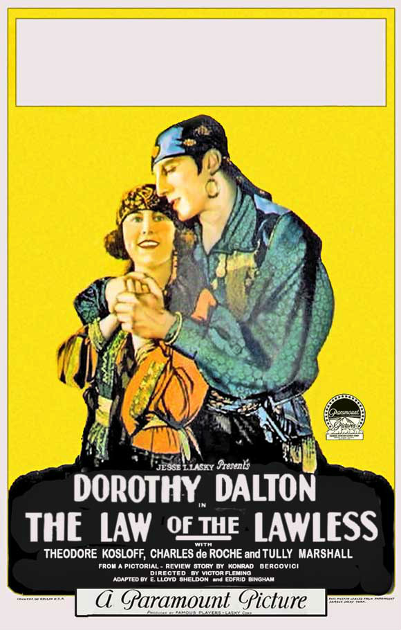 Window poster for the American drama film The Law of the Lawless (1923).